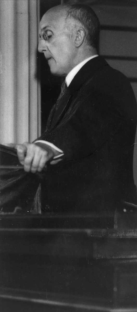 Norwegian medical doctor Herman Fleischer Høst (1883–1980) in the 1930s